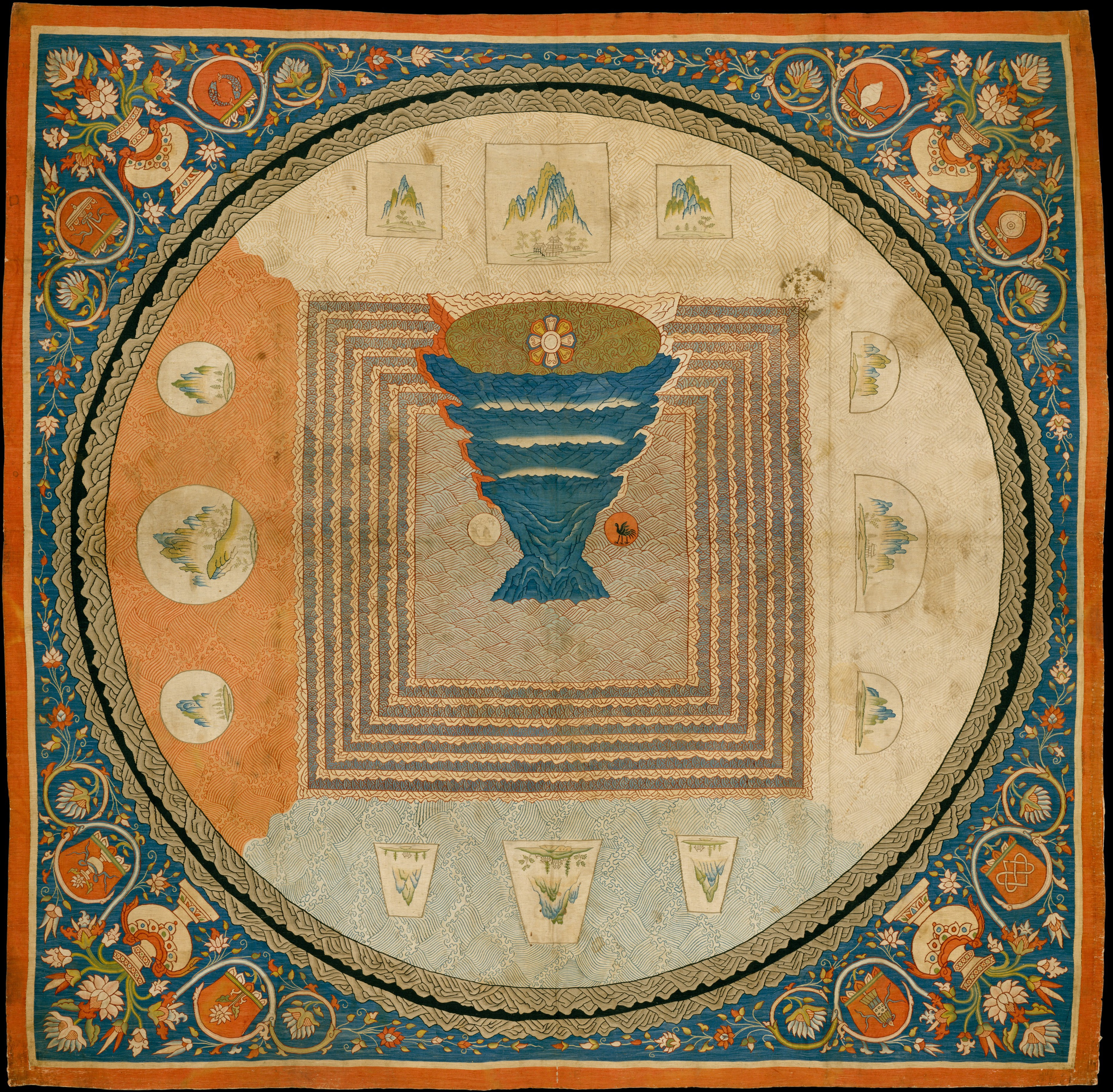 Chinese K'o-ssu depicting Mount Meru. Yuan dynasty (1271–1368). Silk tapestry (kesi), 33 x 33 in. (83.8 x 83.8cm). This elaborate tapestry-woven mandala, or cosmic diagram, illustrates Indian imagery introduced into China in conjunction with the advent of Esoteric Buddhism. At the center is the mythological Mount Meru, represented as an inverted pyramid topped by a lotus, a Buddhist symbol of purity. Traditional Chinese symbols for the sun (three-legged bird) and moon (rabbit) appear at the mountain’s base. The landscape vignettes at the cardinal directions represent the four continents of Indian mythology but follow the conventions of Chinese-style “blue-and-green” landscapes. The dense floral border derives from imagery of central Tibet, particularly from monasteries with ties to the court of the Yuan dynasty.